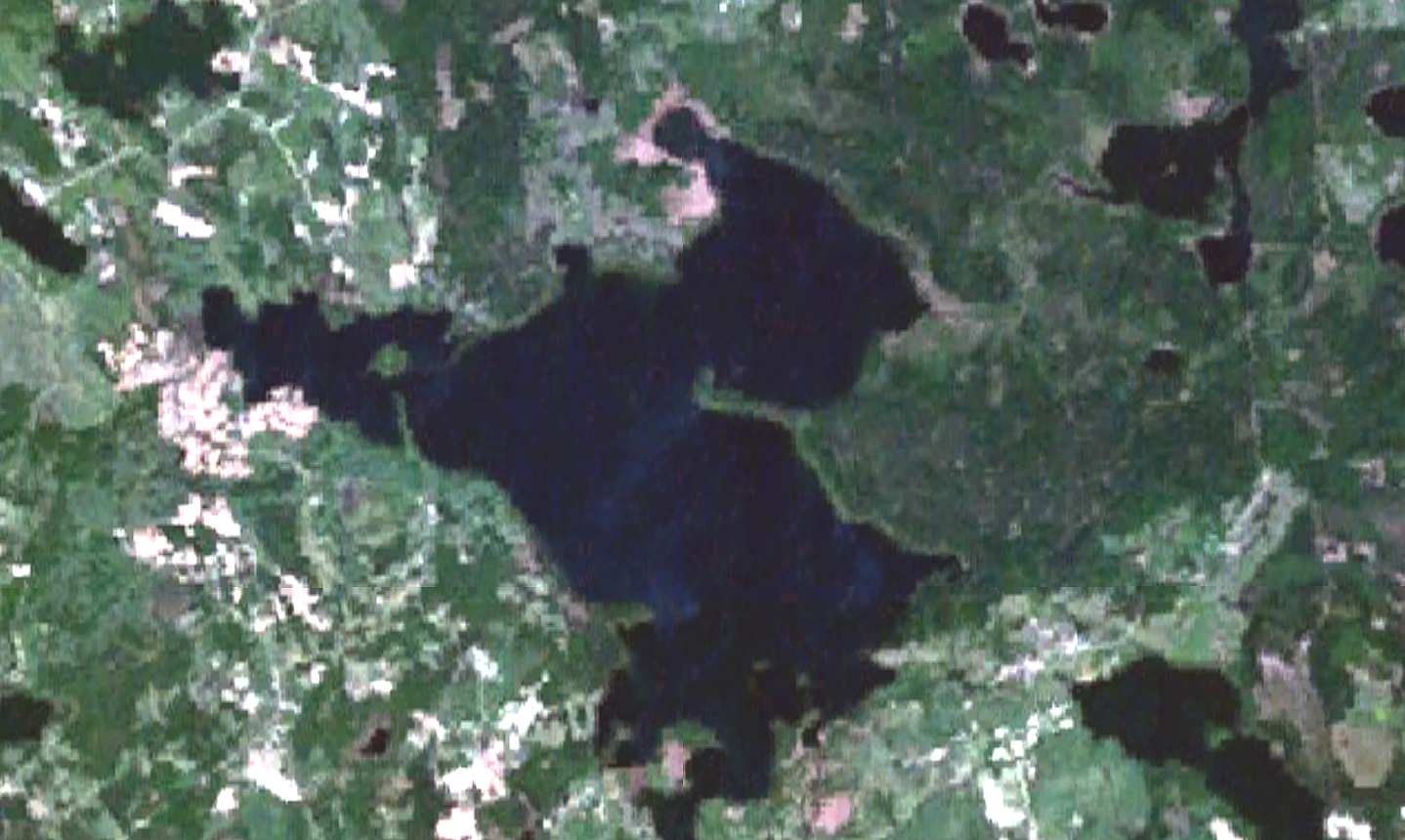 Rychy Lake